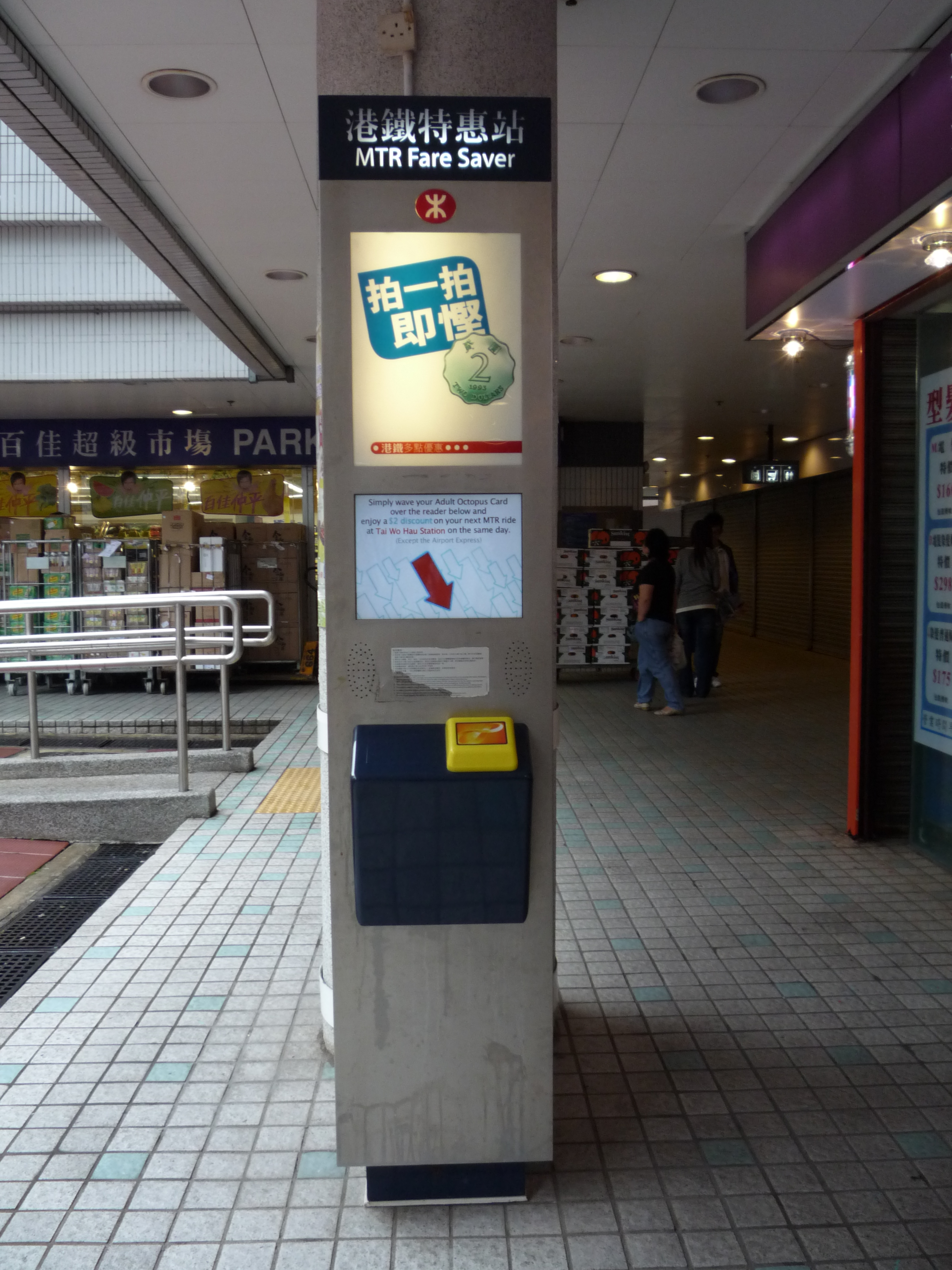 A MTR Fare Saver in Tai Wo Hau Shopping Centre 2 (Suitable for Tai Wo Hau Station)